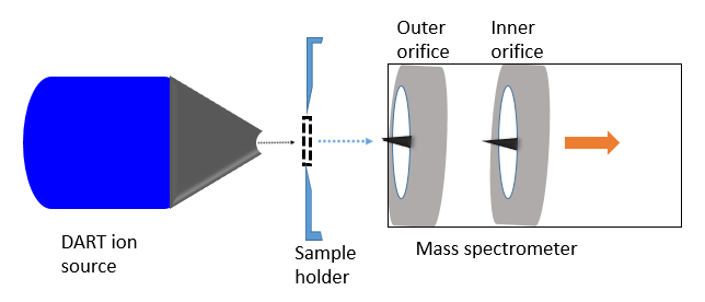 image of DART ion source